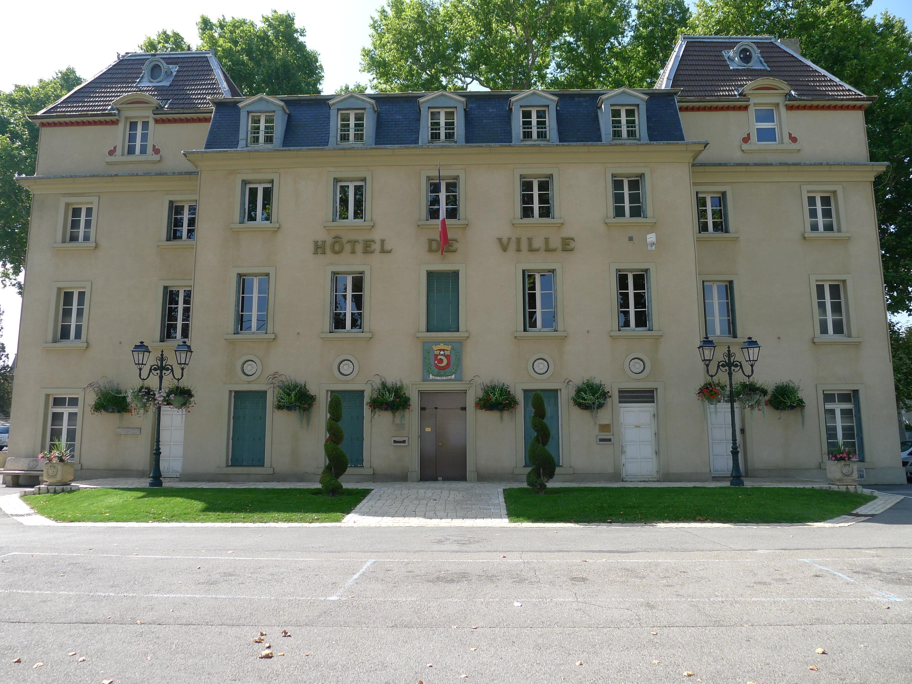 Town hall of Tain-l'Hermitage - Drôme - France